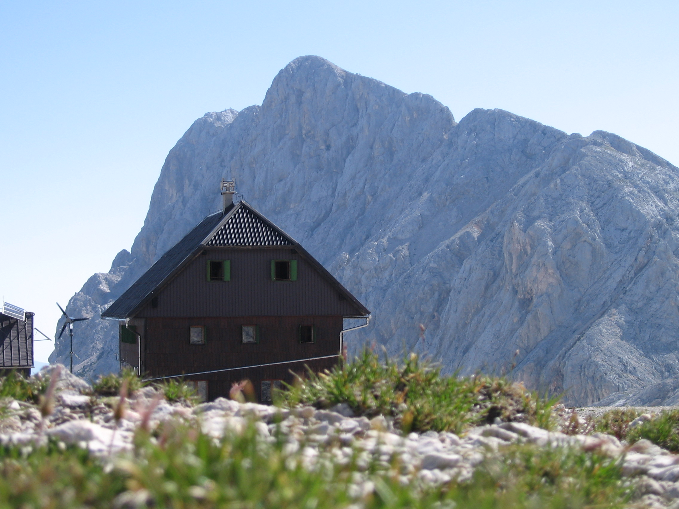 Valentin Stanič's hut, behind is mount Rjavina (2532m)